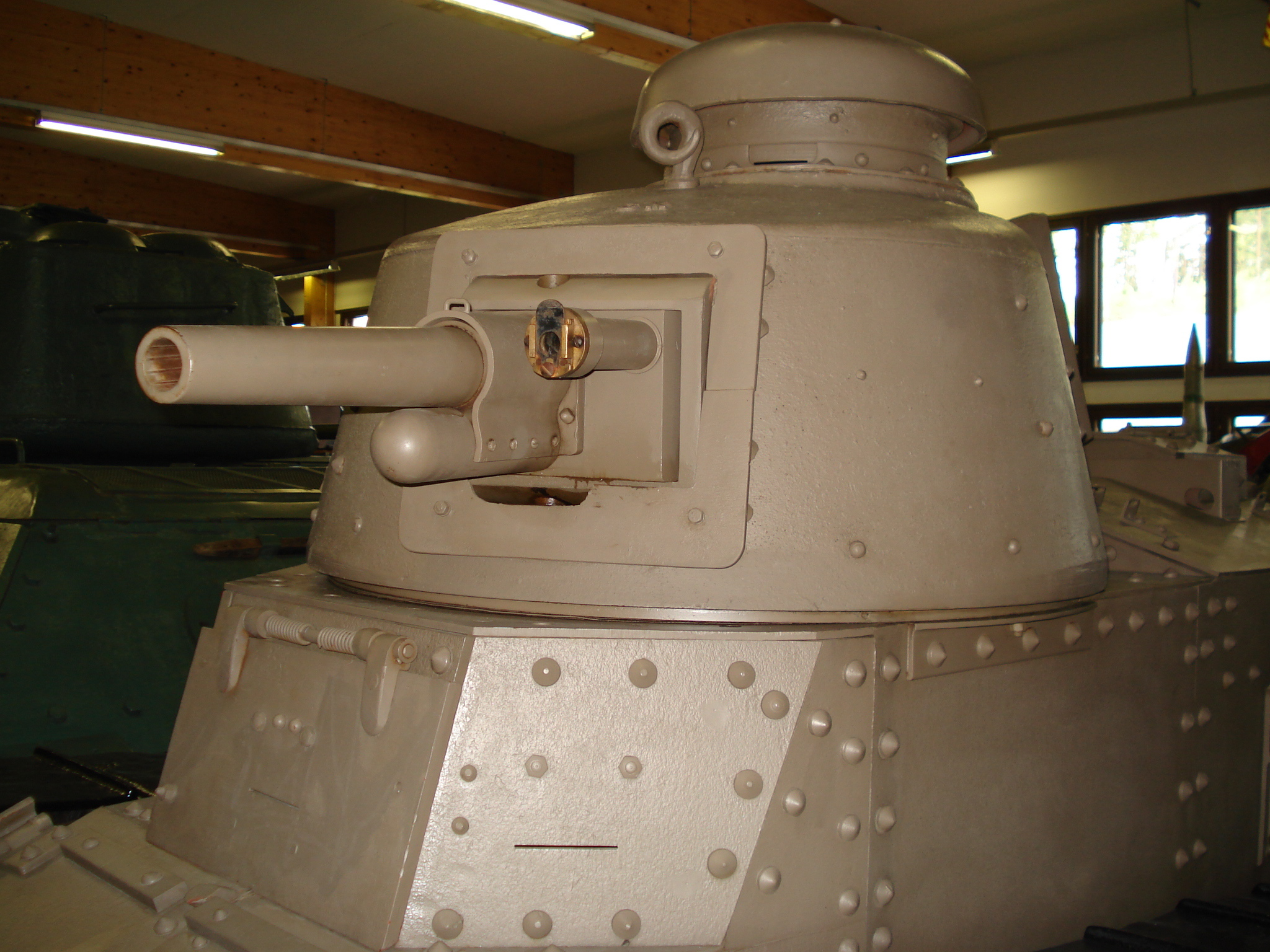 Renault FT-17 tank armed with some long-barrel 37 mm gun. This example, which was exported to Finland, displayed in Finnish Tank Museum (Panssarimuseo) in Parola. Photo taken on July 14, 2006. Source: Photo by me, User:Balcer.